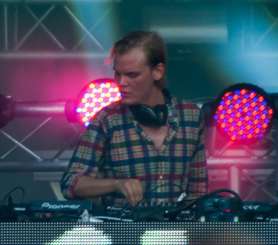 Avicii @ Inox Park Paris Chatou 2011